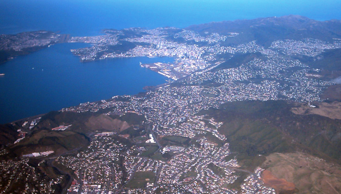 Picture of Wellington from a plane. Looking south. The suburbs of Johnsonville and Raroa are in the immediate foreground, with the Ngauranga Gorge invisible to the left of the quarry at lower left. Rongotai Airport is visible upper left, with the Miramar Peninsula to the left of that. The suburb that reaches the edge of the picture upper right is Karori.